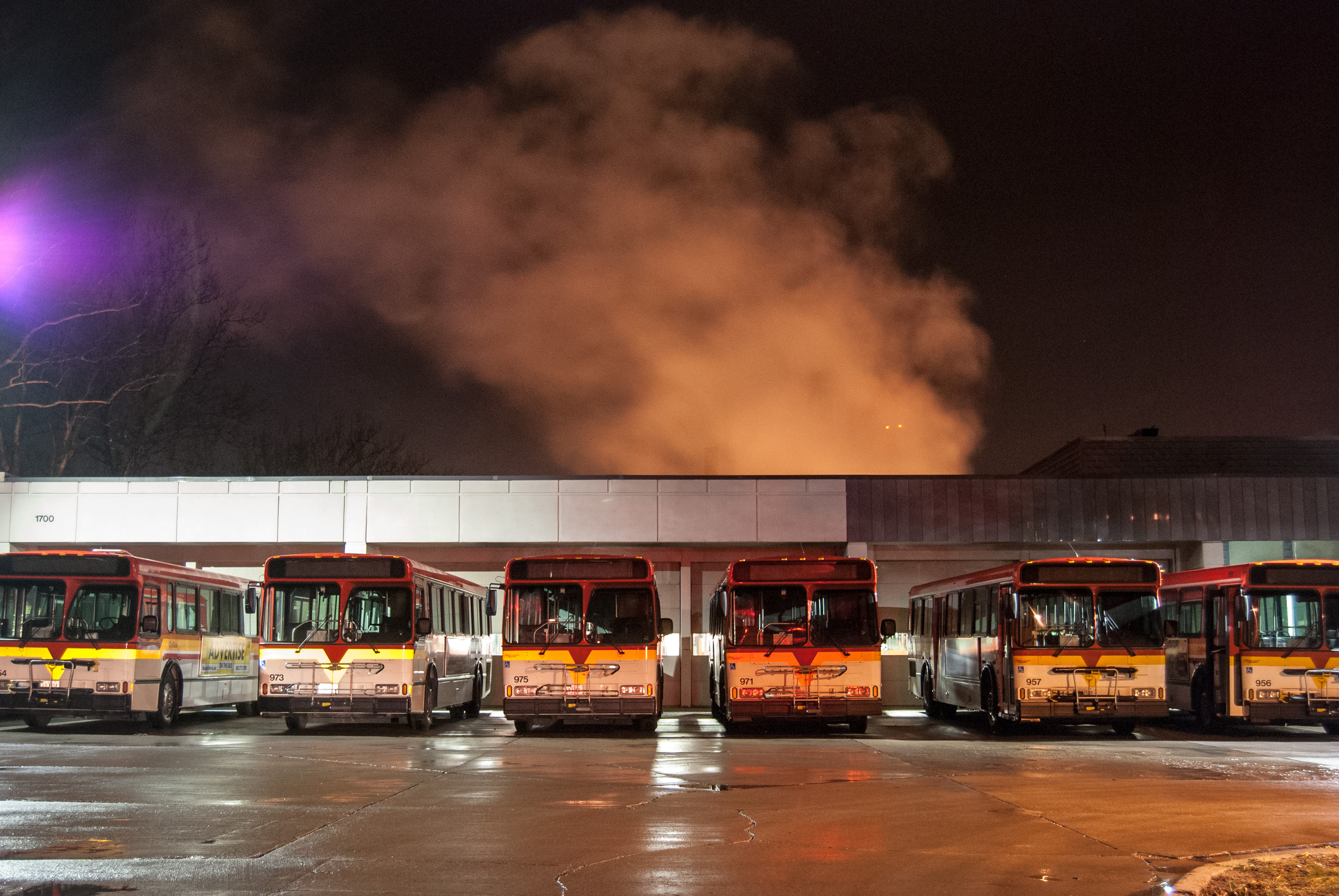 Buses ready to start Moonlight Service.